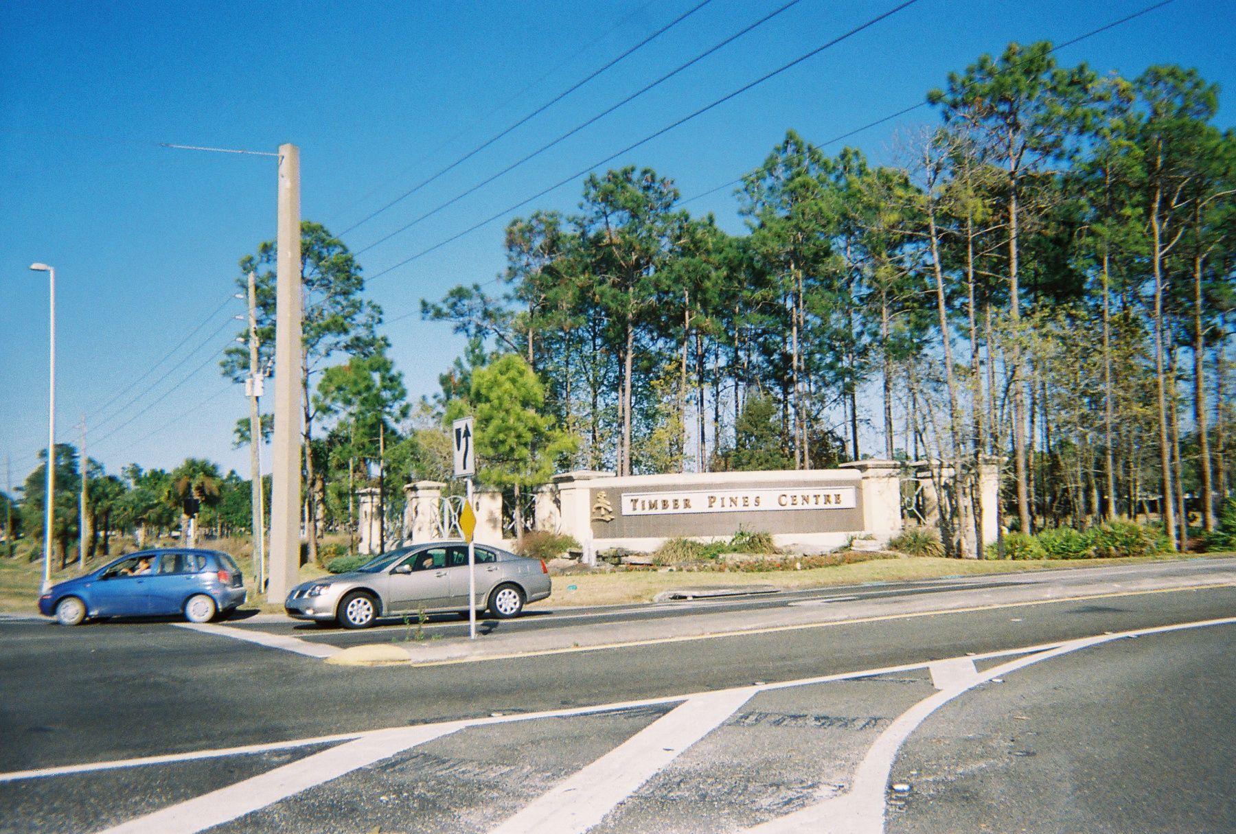 The northwest entrance to Timber Pines, Florida, on U.S. Route 19. Despite the name of the image, the actual gate is further east. A southwest entrance also exists south of here, and an east entrance can be found on Deltona Boulevard(Hernando County Road 589).